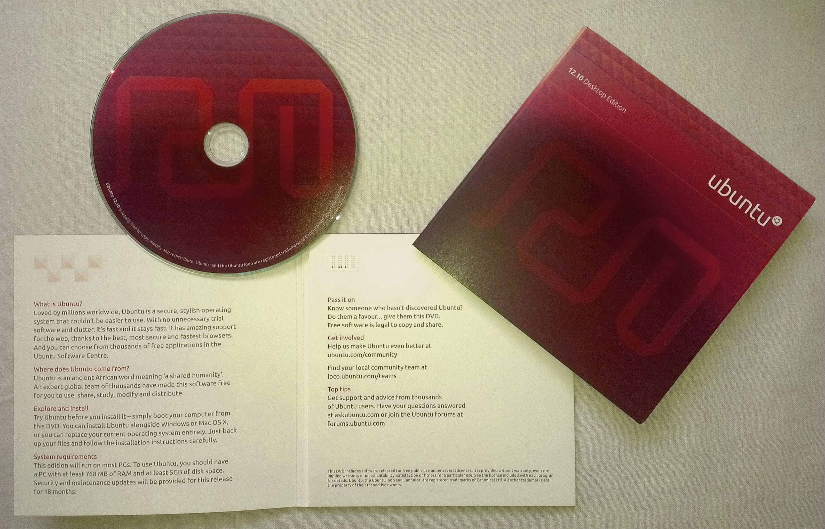 Official Ubuntu CD, version 12.10 Ouantal Quetzal